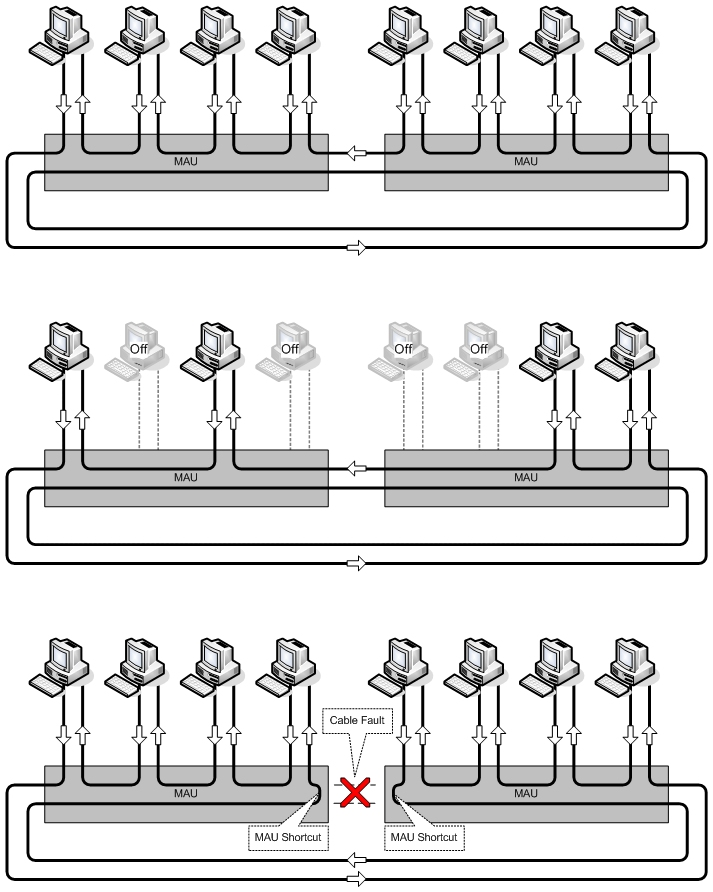 The redundancy meganism of physical Token Ring wiring